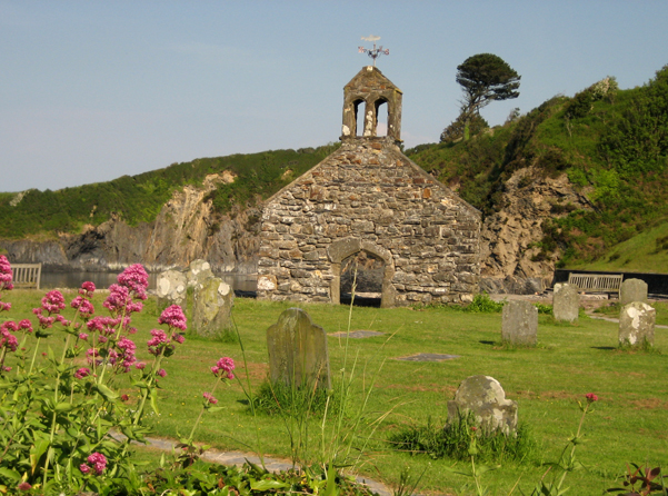 St. Brynach's Church at Cwm-Yr-Eglwys